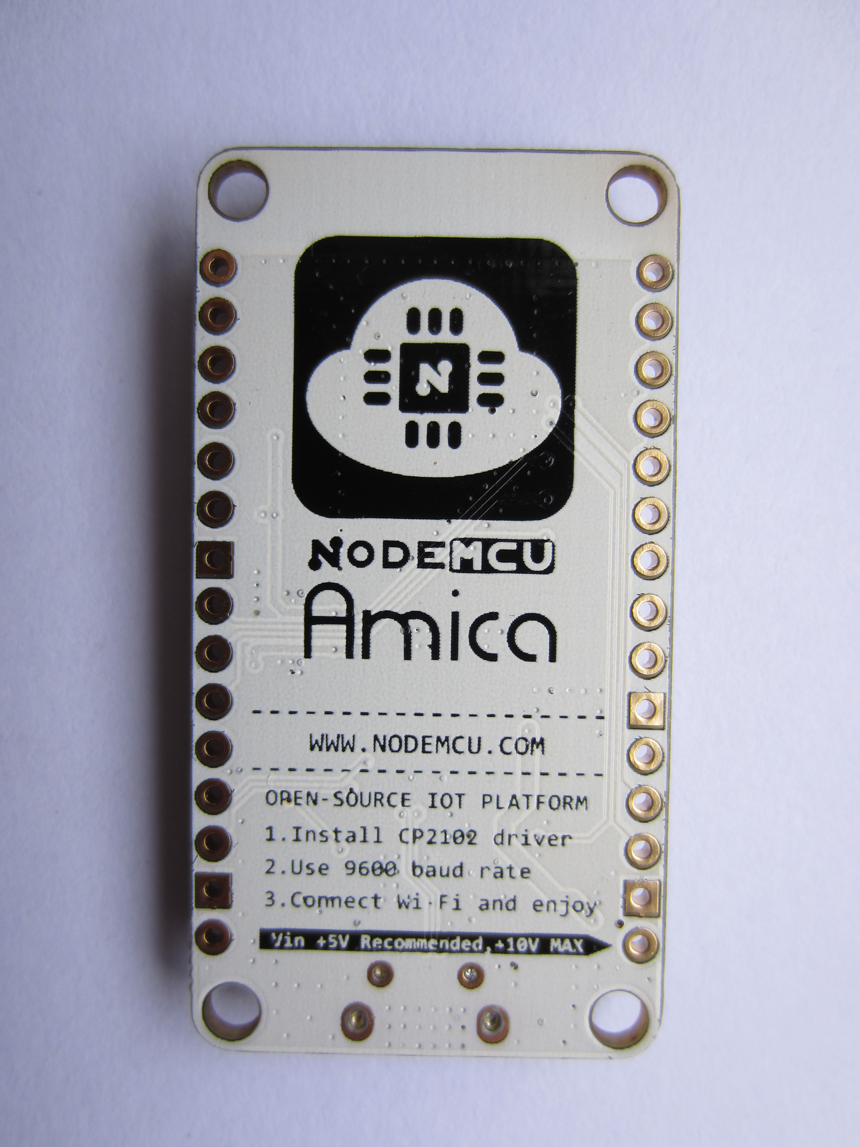 NodeMCU DEVKIT 1.0 BETA back